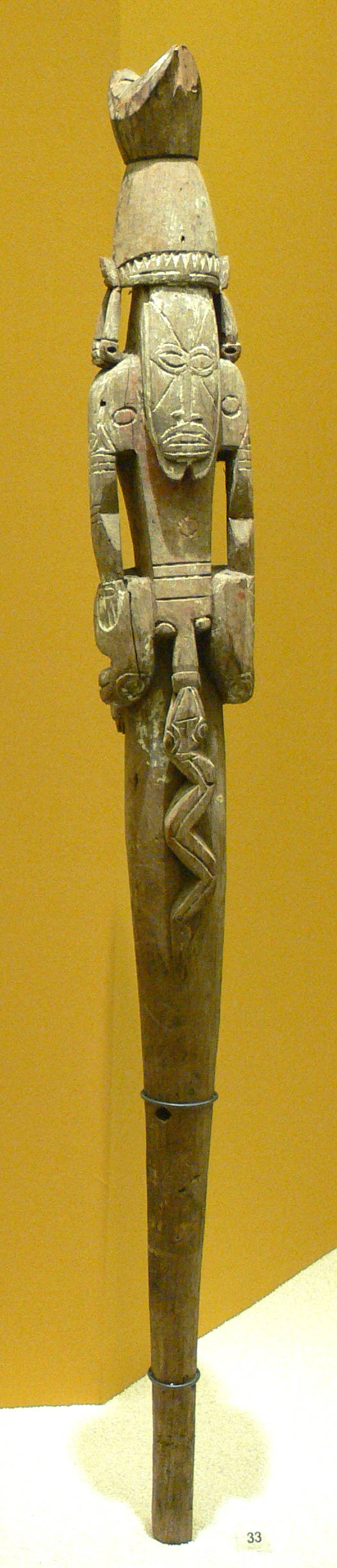 Figure on a stick, Tami Islands, Eastern New Guinea; South Seas Department, Ethnological Museum, Berlin, Germany (Pfalzer collection, 1907)